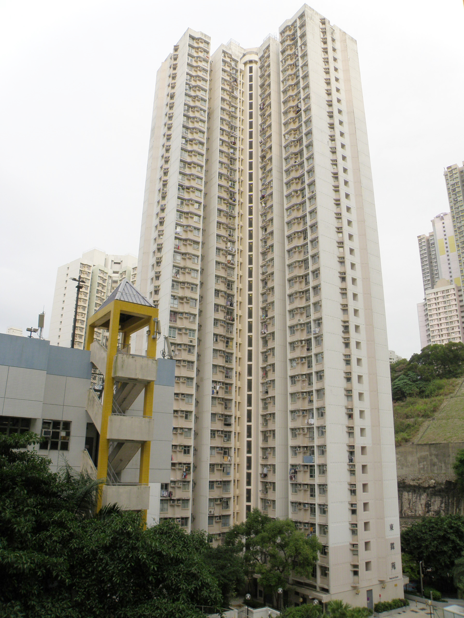 Tung Lam Court in Sai Wan Ho, Hong Kong.